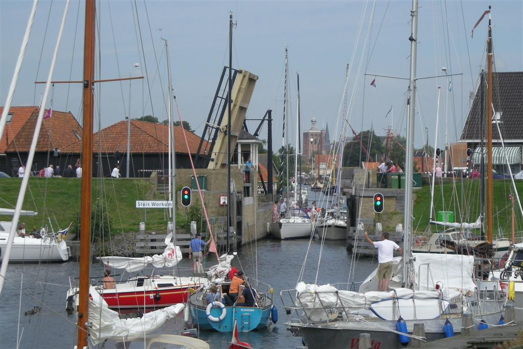 Canal Lock in Workum.